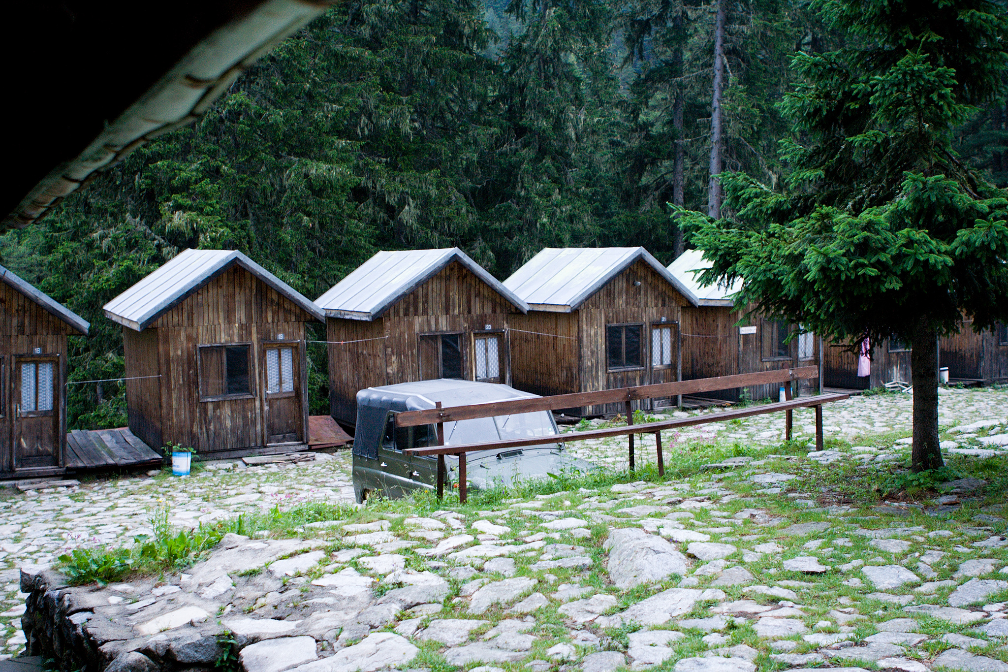 Demjanitsa hut, Pirin mountain, Bulgaria